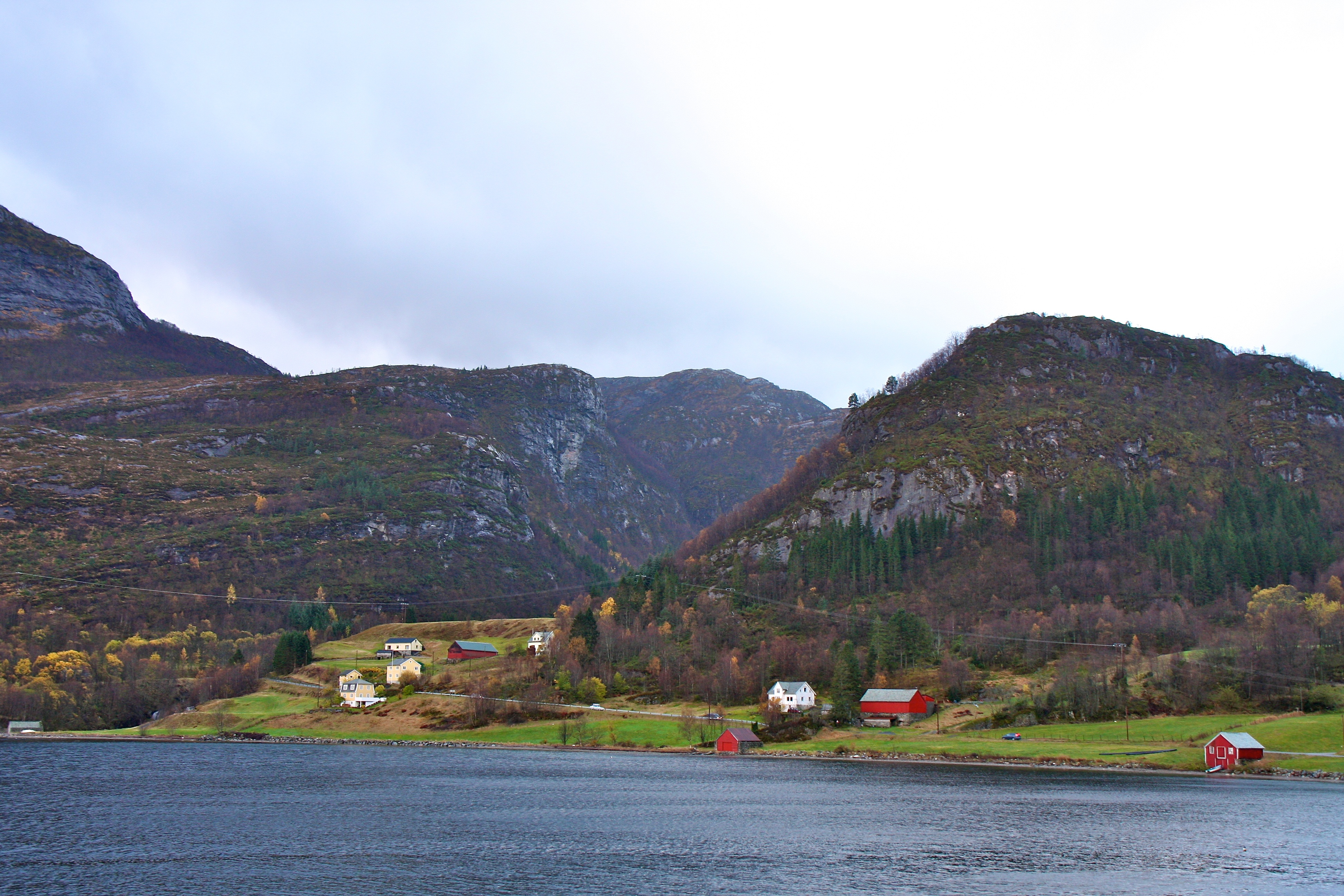 Hjartholm (Gulen) in Gulen municipality, Norway.